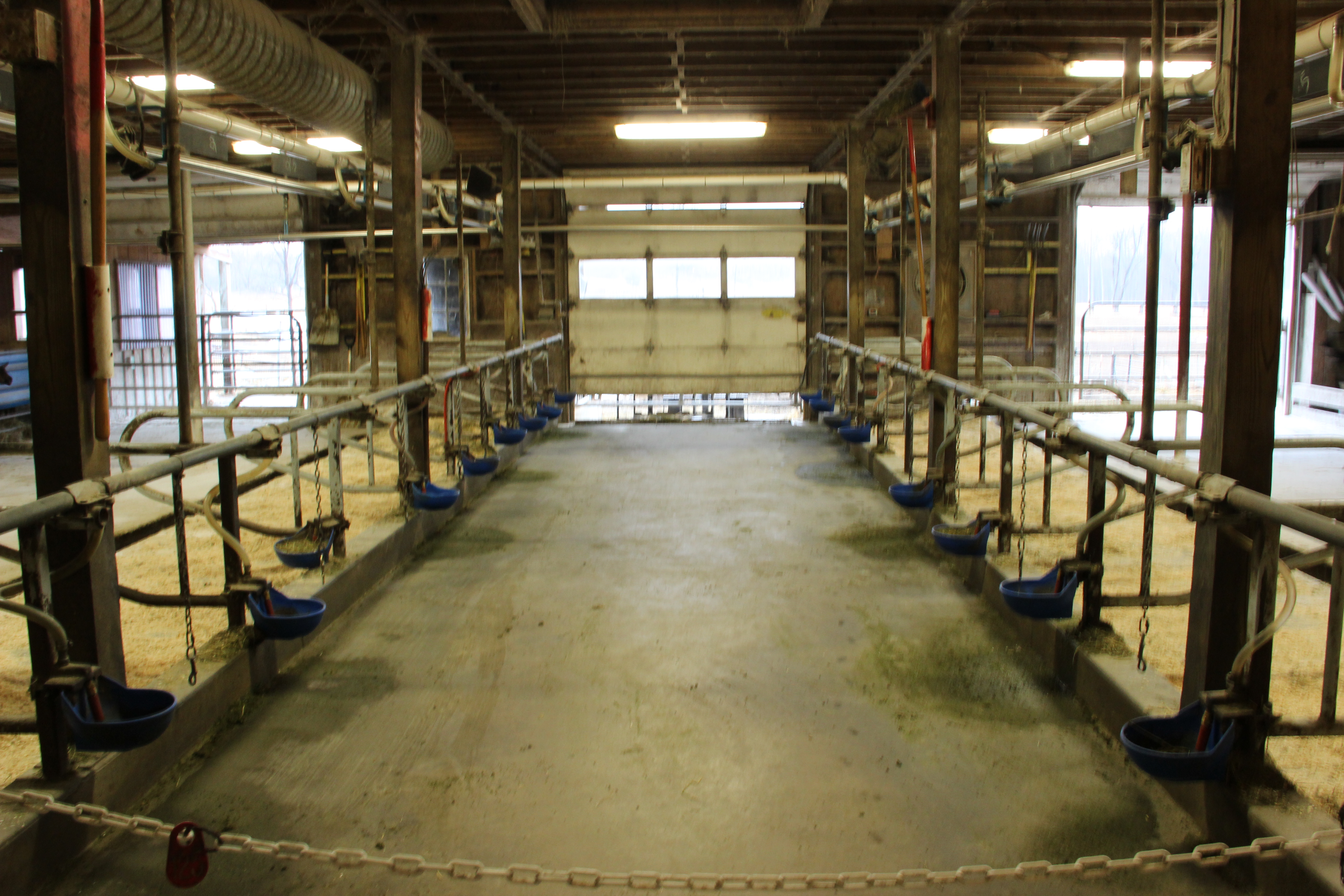 Cow stalls at Sprout Creek Farm in Poughkeepsie, NY